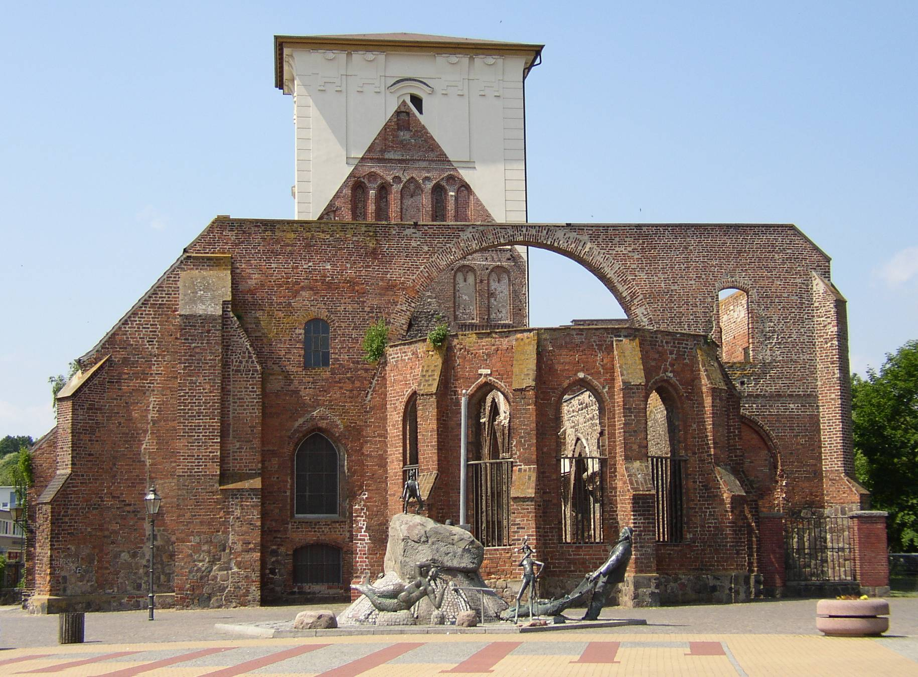 Church in Wriezen in Brandenburg, Germany